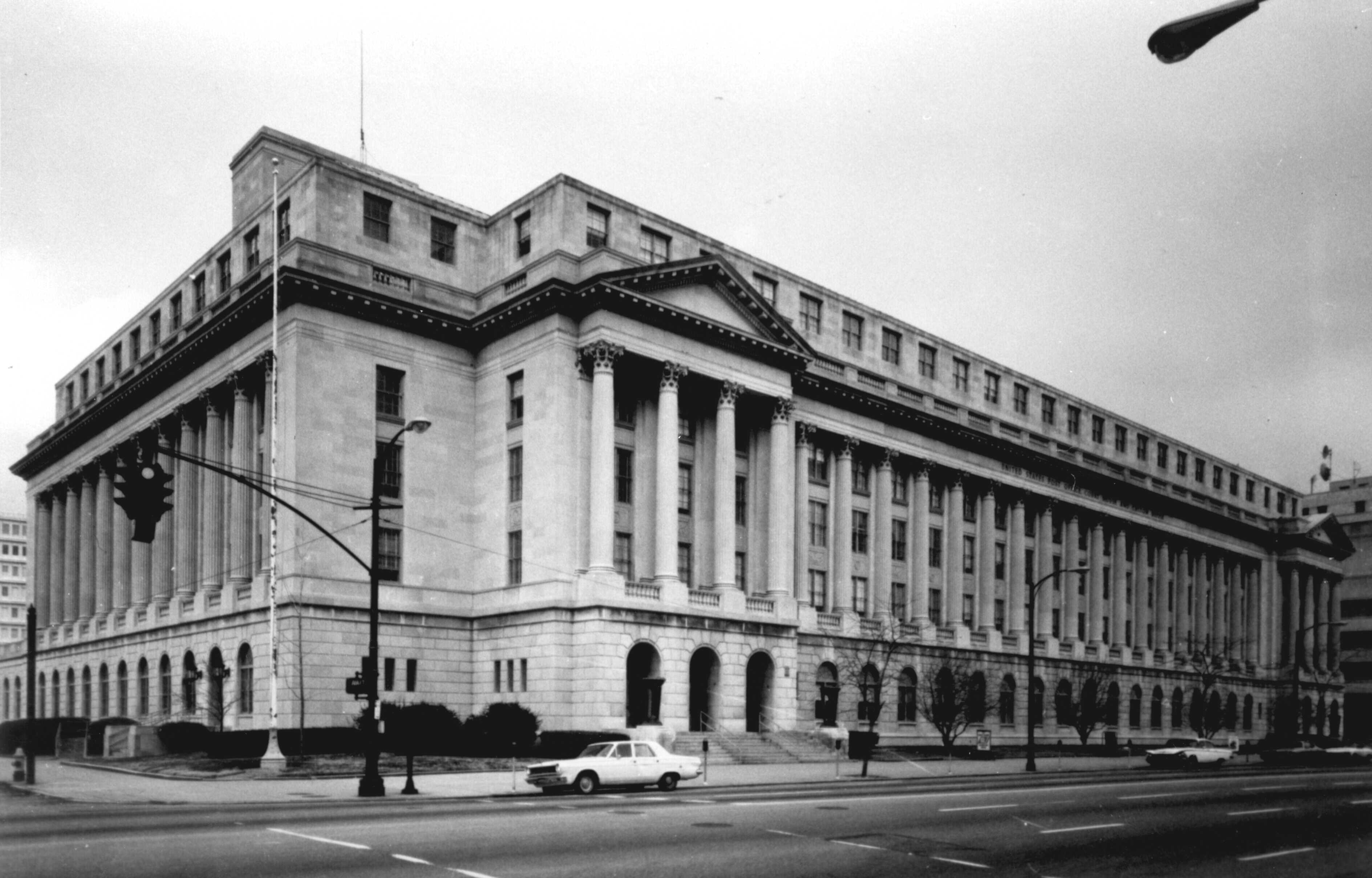 Front and western side of the Gene Snyder United States Courthouse, located at 601 W. Broadway (U.S. Route 150) in Louisville, Kentucky, United States. Built in 1932, it is listed on the National Register of Historic Places.